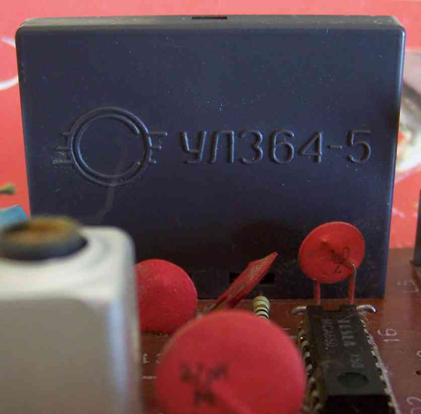 Photograph of an ultrasonic delay line, in situ on a circuit board